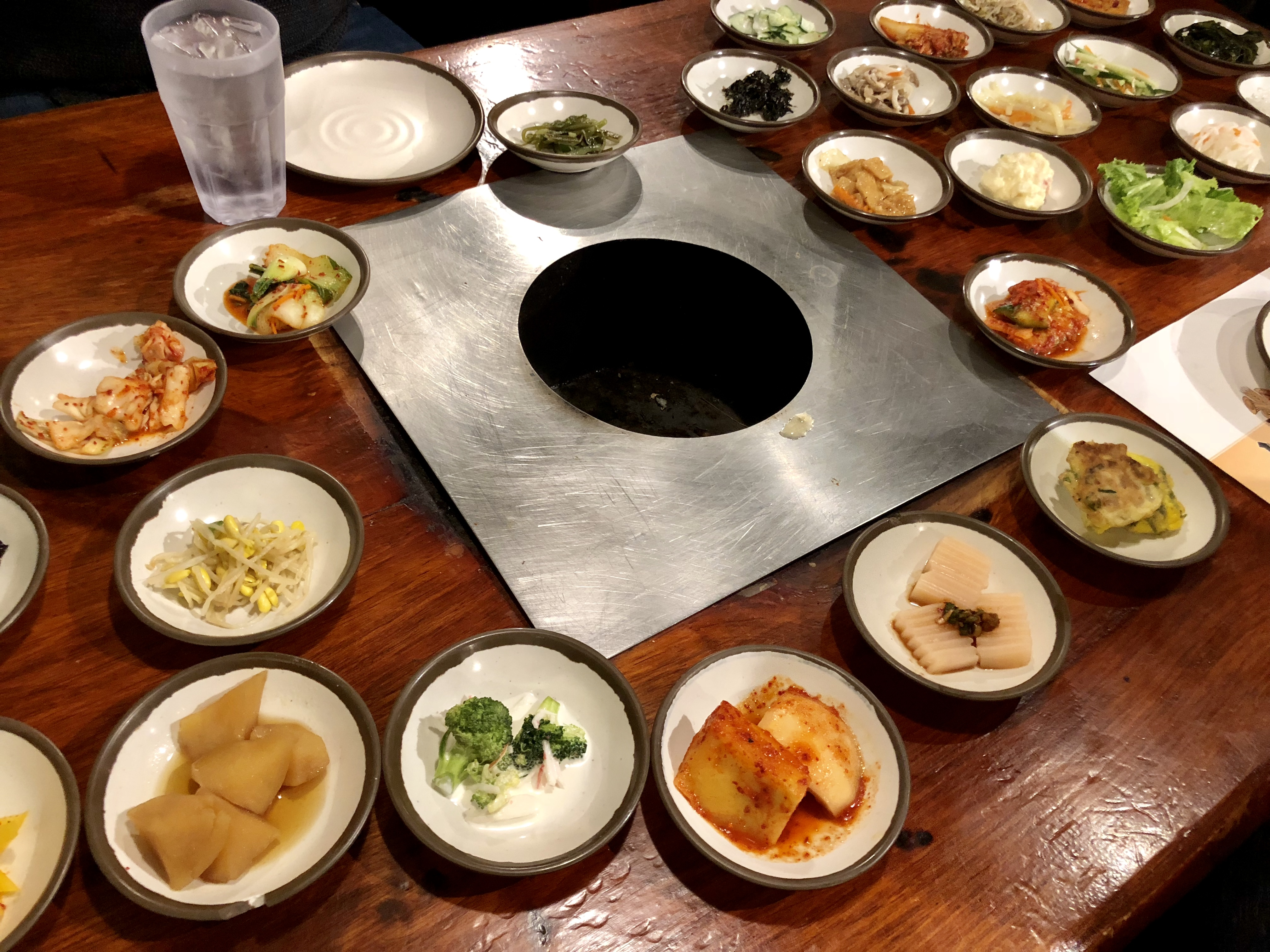 Side dishes of Korean Barbecue.jpg